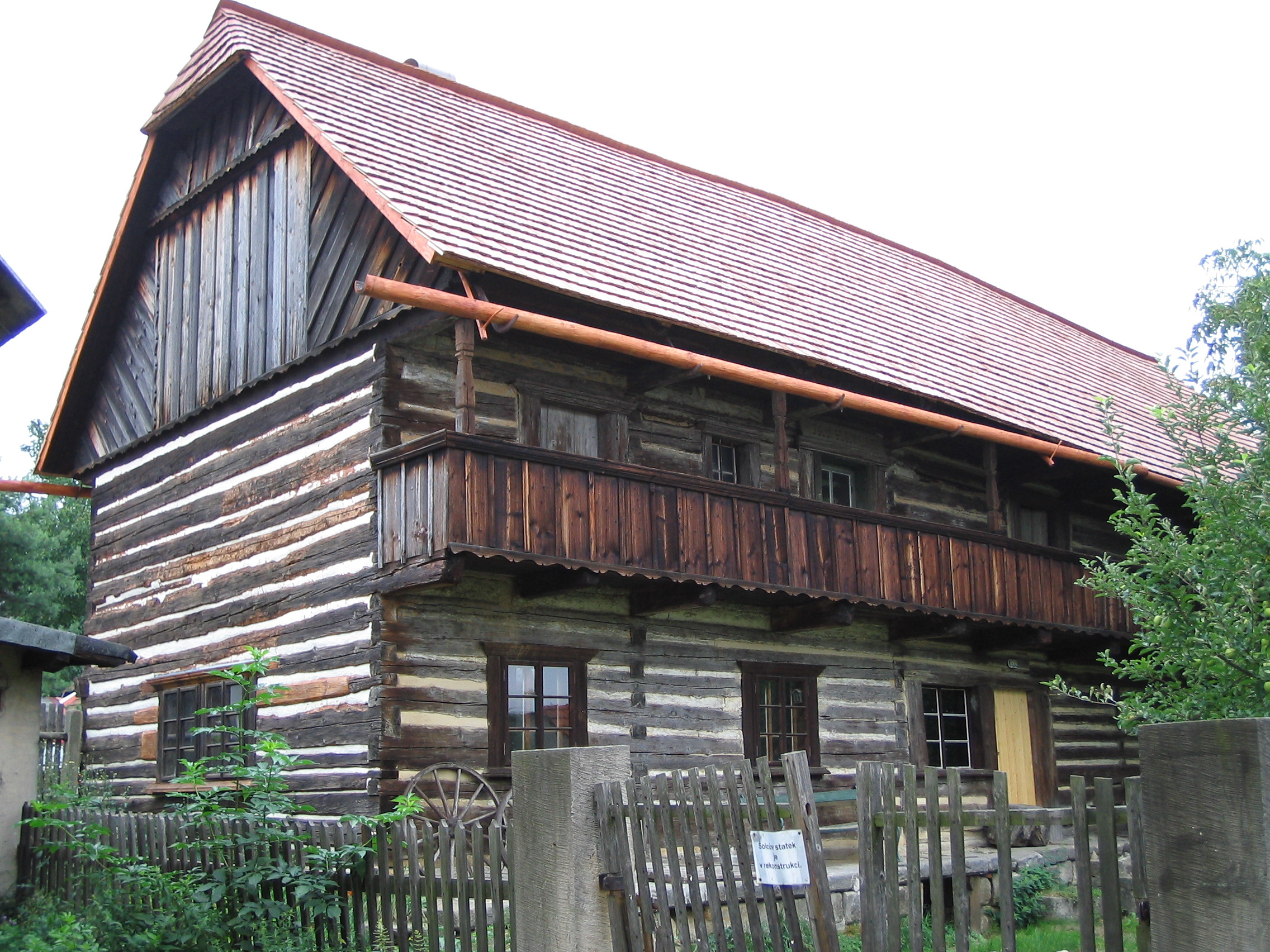 House in Sobotka where Václav Šolc was born